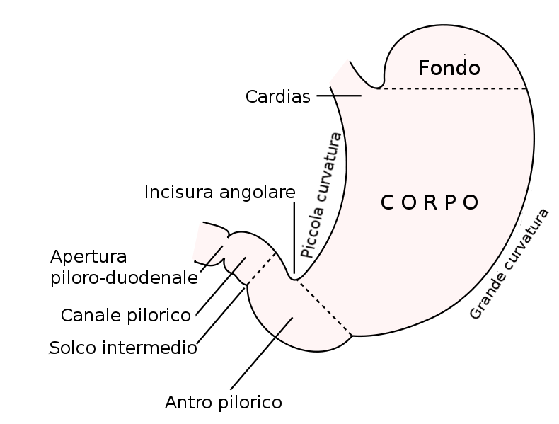 Outline of stomach, showing its anatomical landmarks. Figure 1046 from Gray's Anatomy.